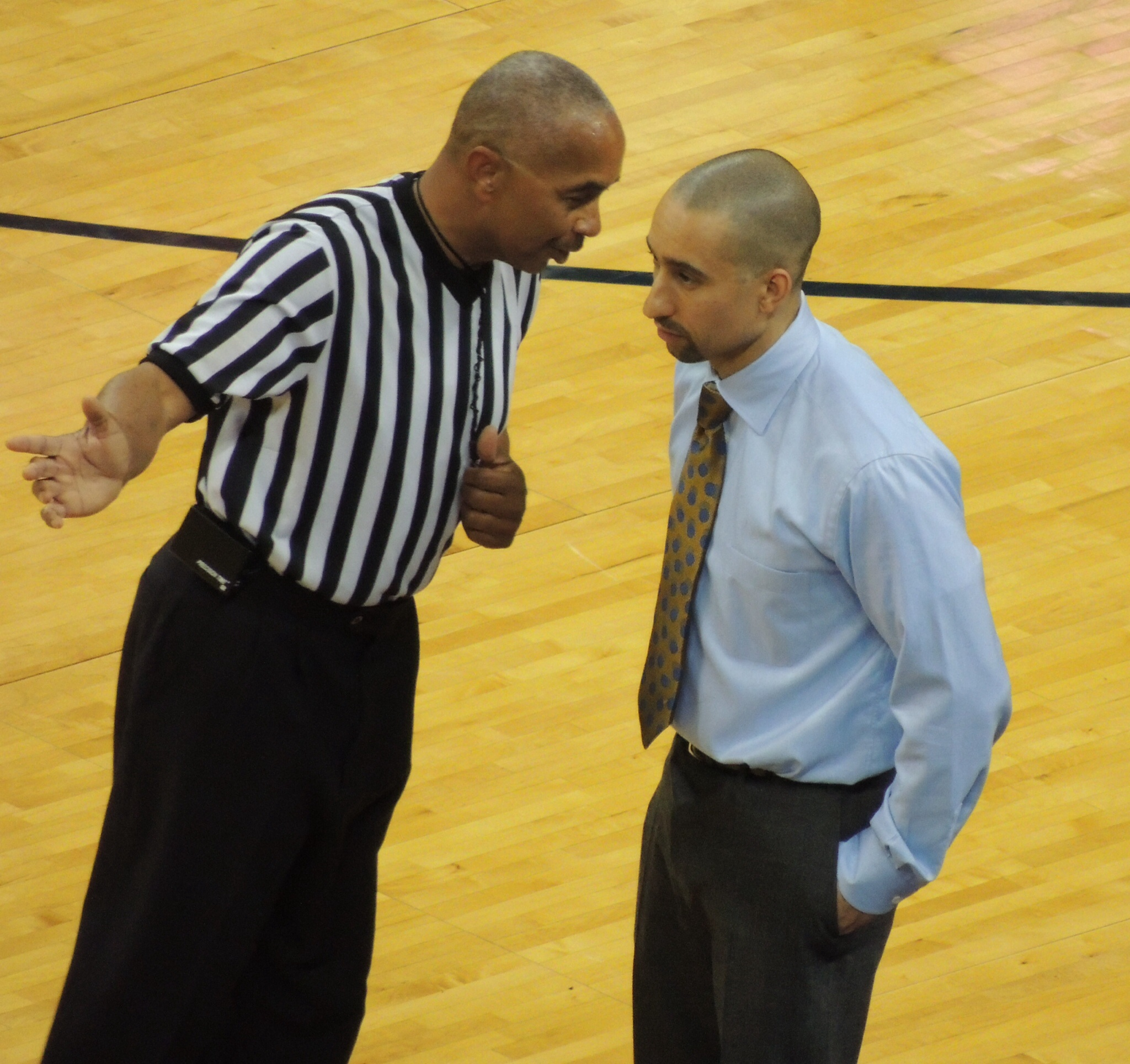 VCU head coach Shaka Smart speaks with an official at a game against the University of Virginia on November 12, 2013